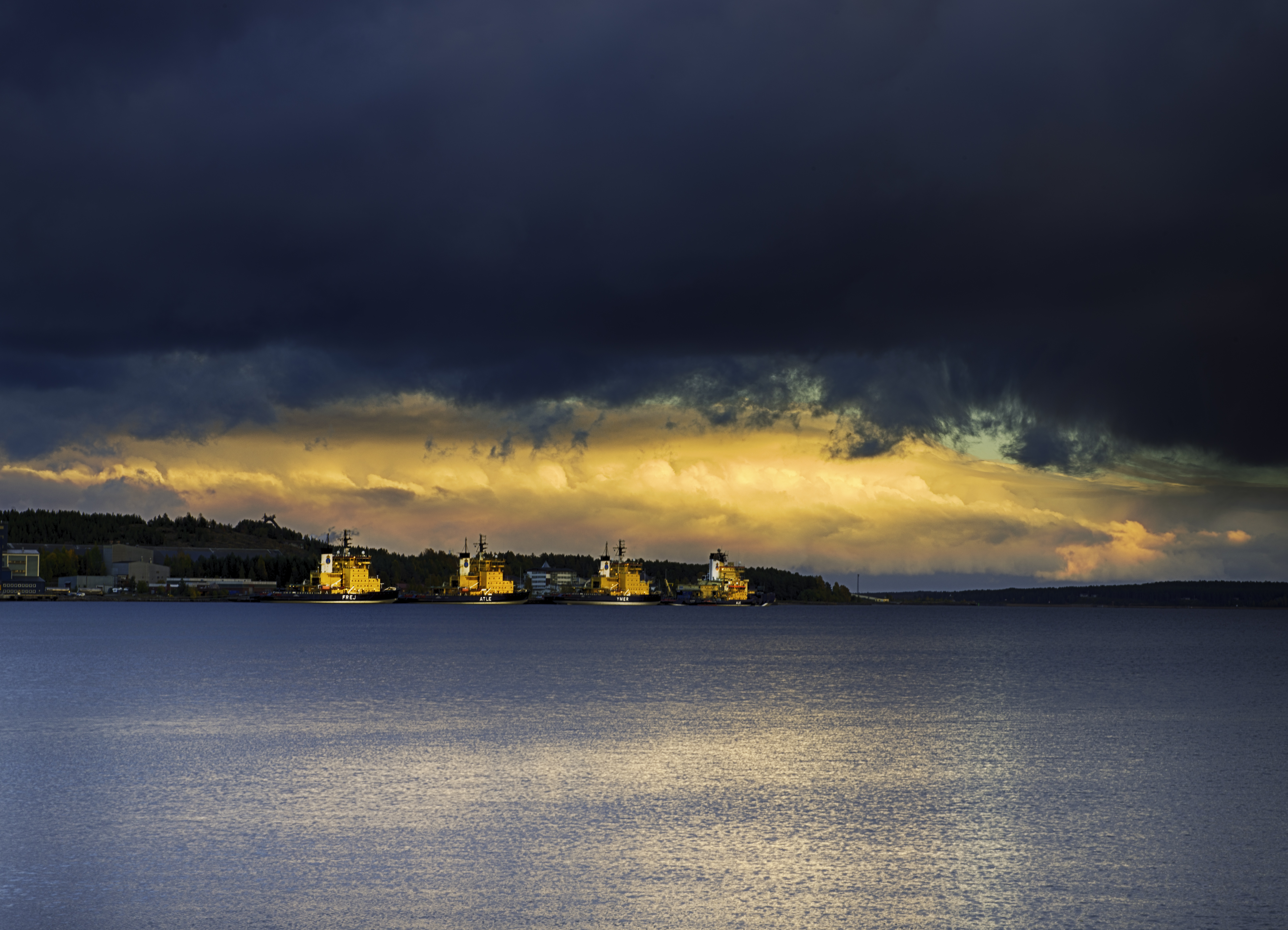 Icebreaker in Luleå City.